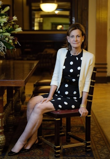 Elizabeth Morris "Lally" Graham Weymouth (born 3 July 1943) is an American journalist who is the senior editor of Newsweek magazine. Photographed in Jerusalem, for Magazine G, Globes